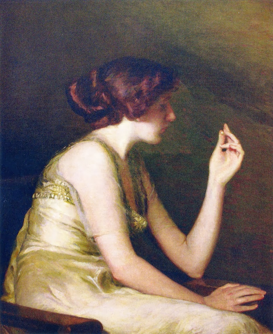 The Pearl